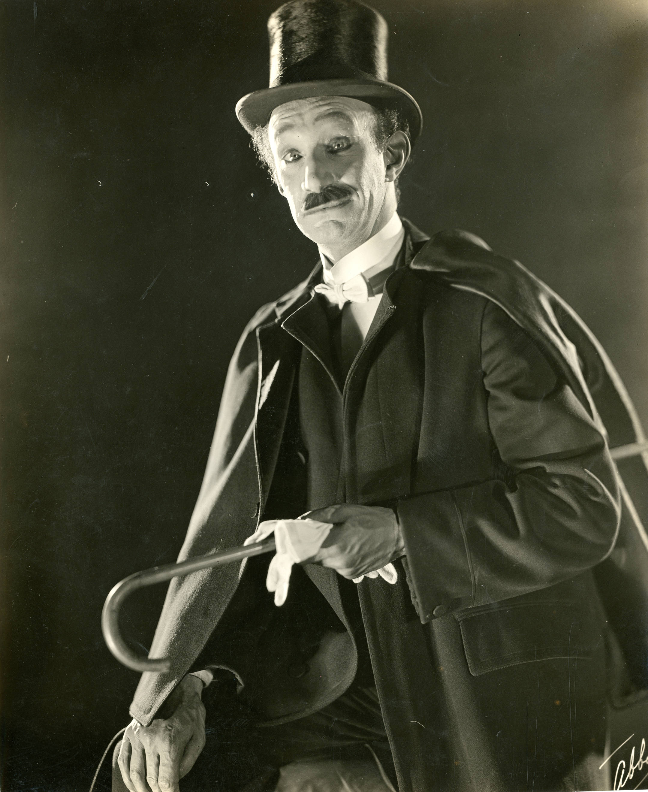 Silent film actor James Finlayson. Subjects: actors